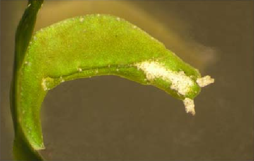 Elysia pusilla. Locality: Maldives. The length of the slug is about 1 cm.